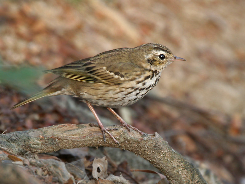 Olive-backed Pipit Anthus hodgsoni in Kolkata, West Bengal, India.